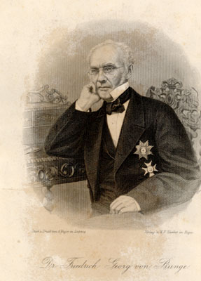 Portrait of Friedrich Georg von Bunge (1802–1897)